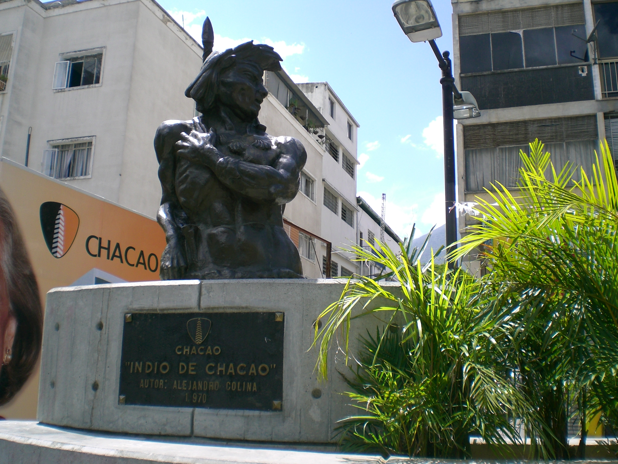 Sculpture of “Indio Chacao”, Chacao Municipality, Caracas, Venezuela.